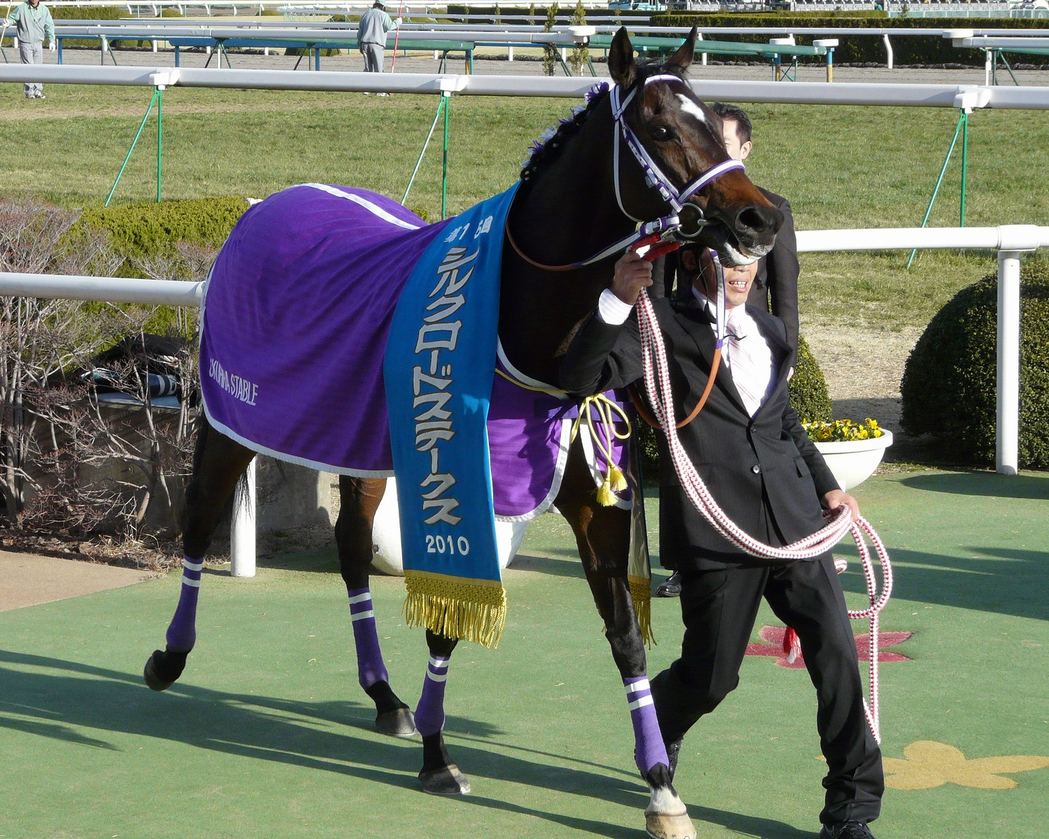 Ultima-Thule20100207